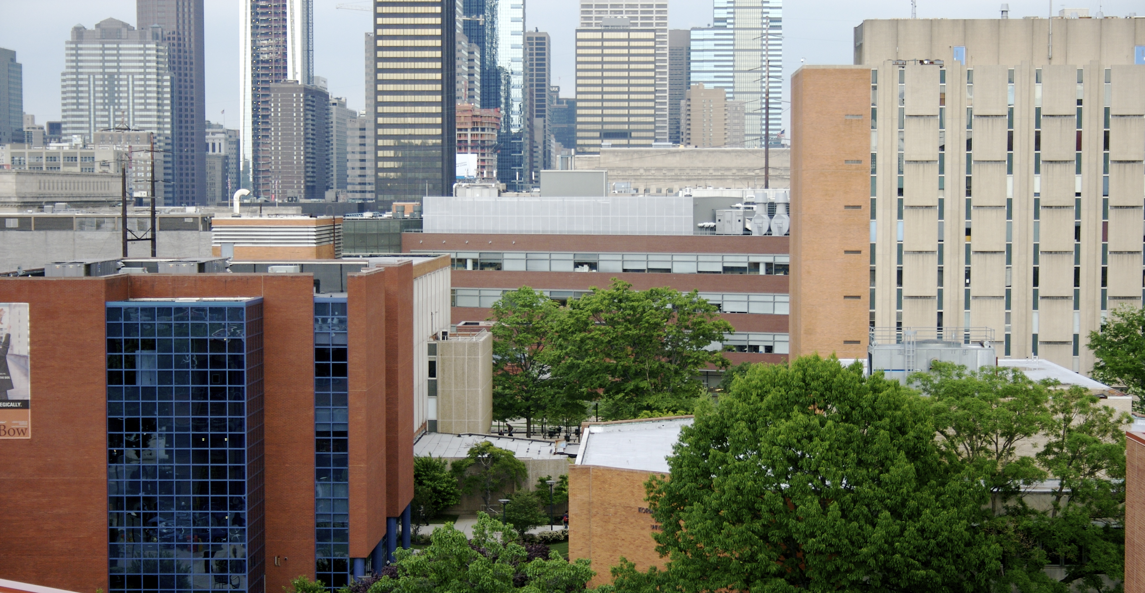 The southern (below Market Street) portion of Drexel University's campus, featuring these buildings: Leonard Pearlstein Building, Matheson Hall, The Bossone Enterprise Research Center, Disque Hall, and The Korman Center